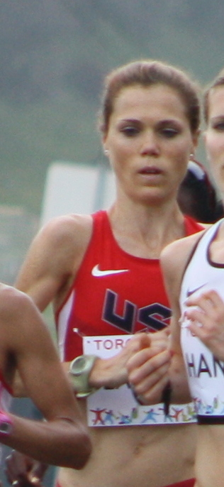 Lindsay Flanagan at the 2015 Pan American Games women's marathon.